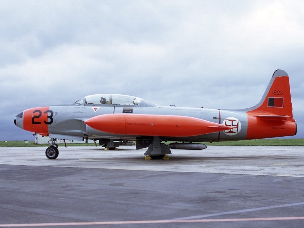 Portuguese Air Force Lockheed T-33A at RAF Upper Heyford